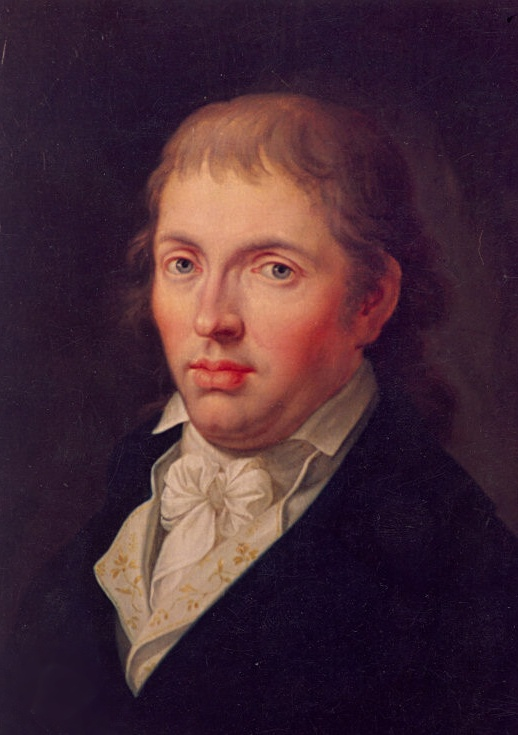 Unknown author: Christian Polykarp Erxleben, oil on canavas , about1800 století (obraz ze sbírek Městského muzea Lanškroun)